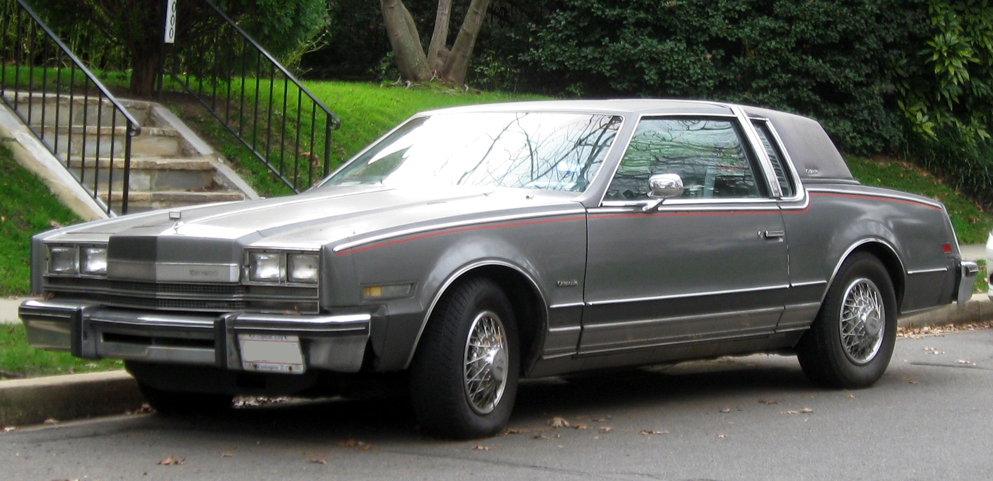 1985 Oldsmobile Toronado photographed in Washington, D.C., USA.